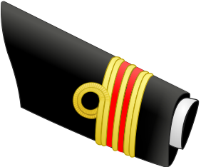 Lt Commander Surgeon Variant